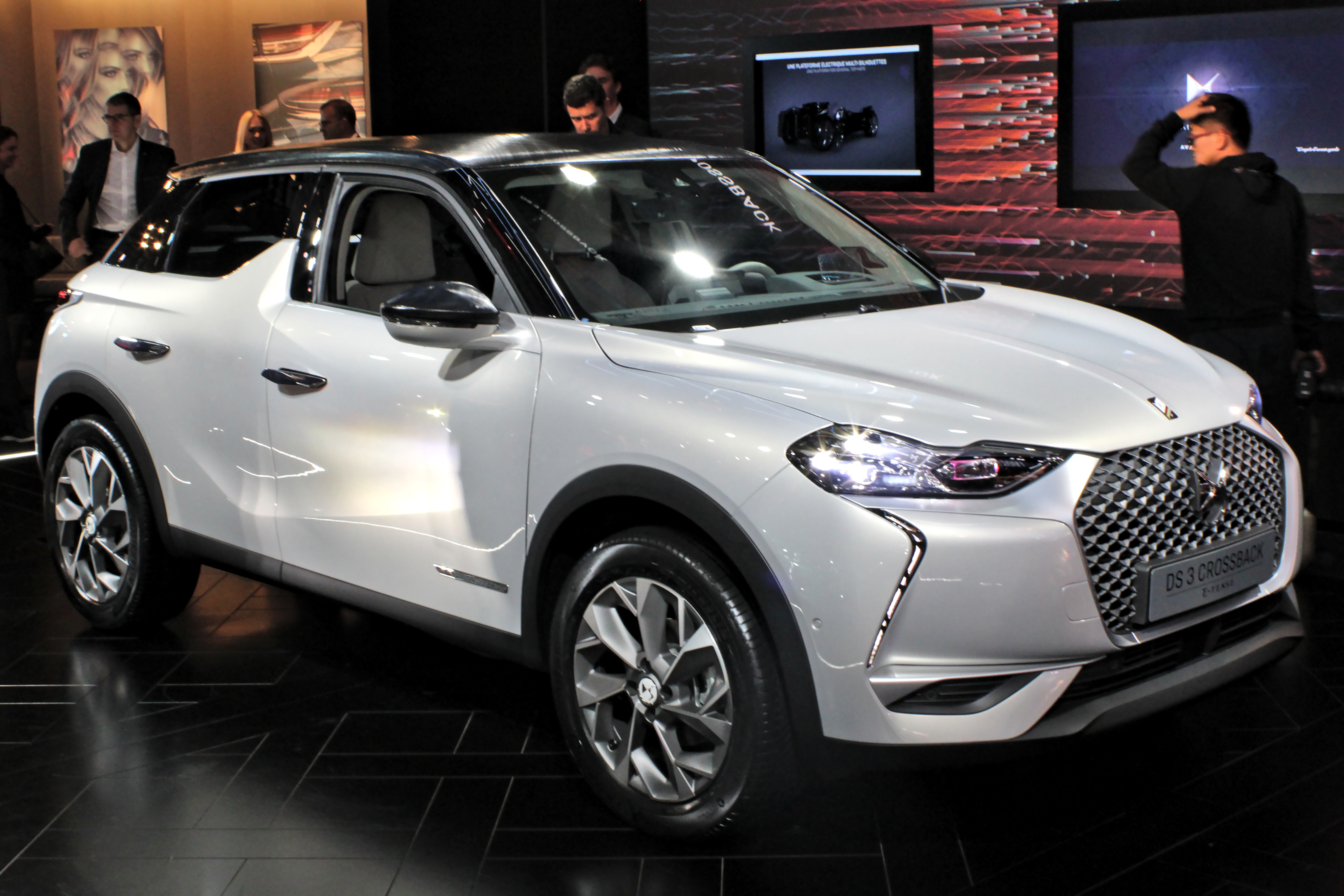 DS3 Crossback E-Tense at Paris Motor Show 2018